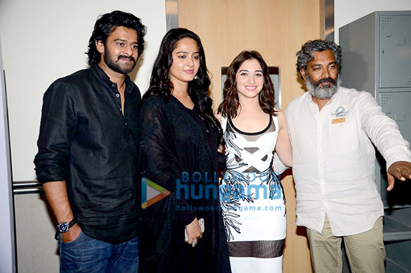 (L-R): Prabhas, Anushka Shetty, Tamannaah and S. S. Rajamouli at the first look launch of the film Baahubali 2